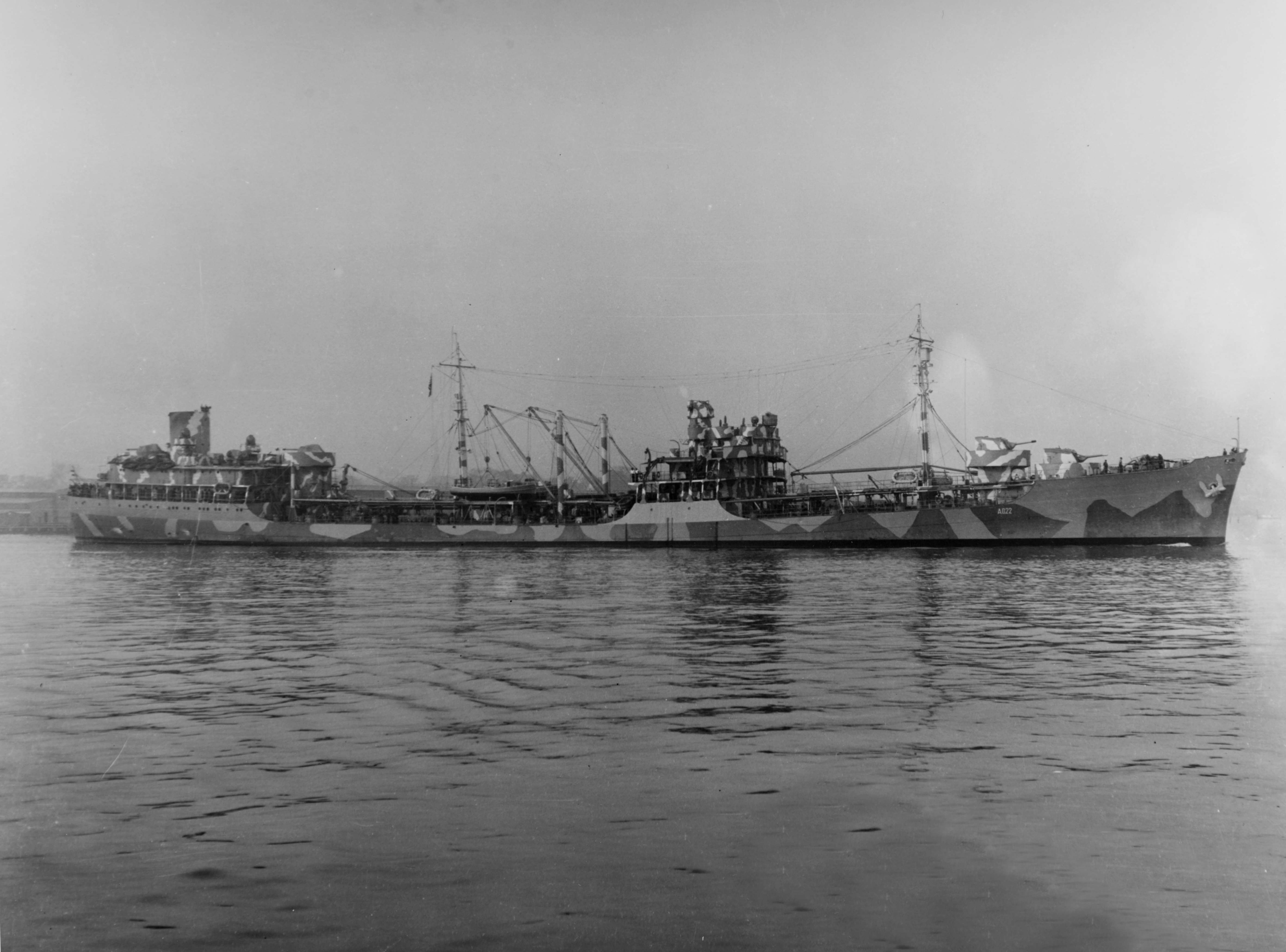 The U.S. Navy fleet oiler USS Cimarron (AO-22), off Norfolk Naval Shipyard, Portsmouth, Virginia (USA), on 6 February 1942. She is painted in Camouflage Measure 12 (Modified).